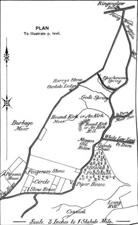 Map of the area between the villages of Ringinglow and Dore in Sheffield.